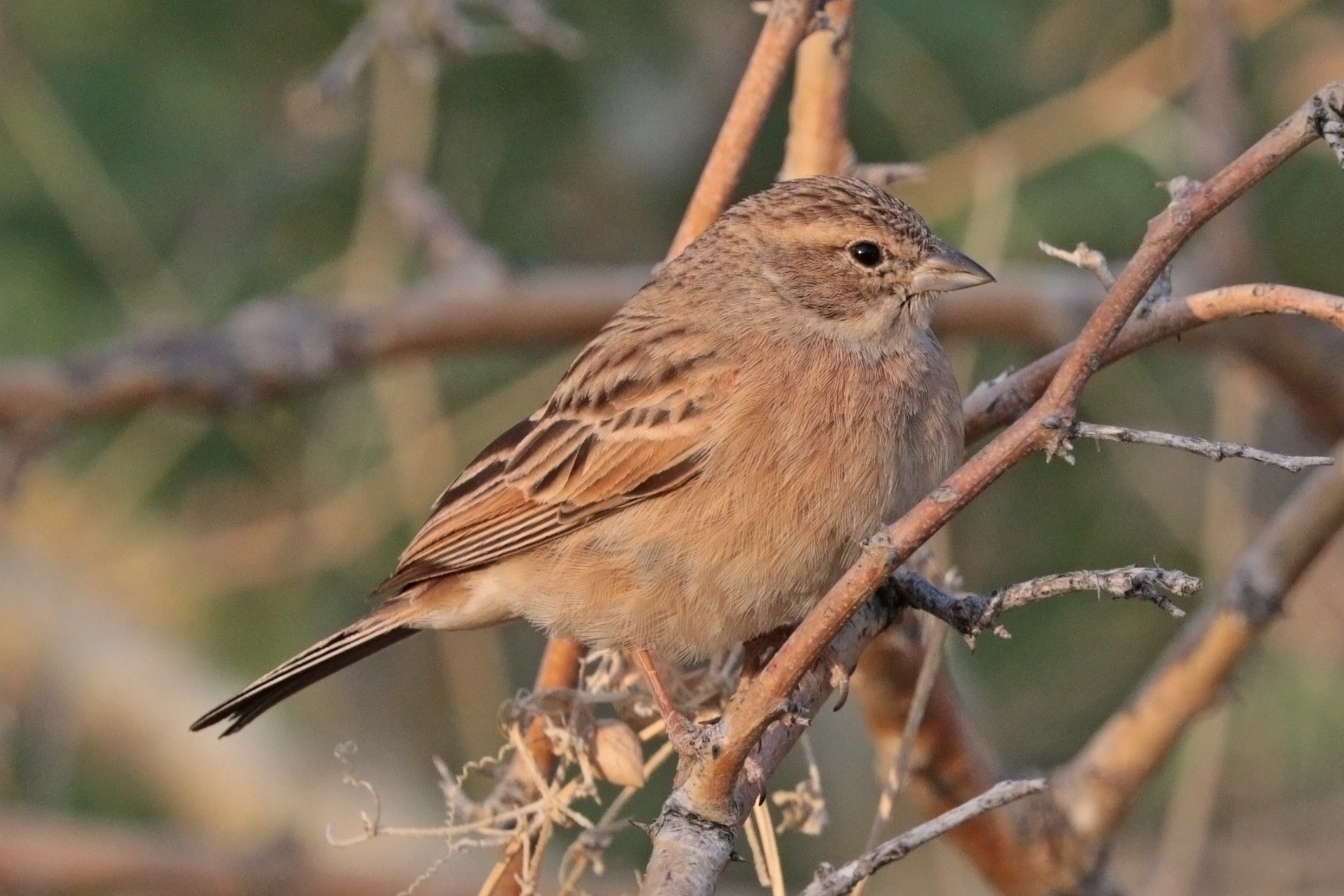 Lark-like bunting (Emberiza impetuani impetuani), Namibia